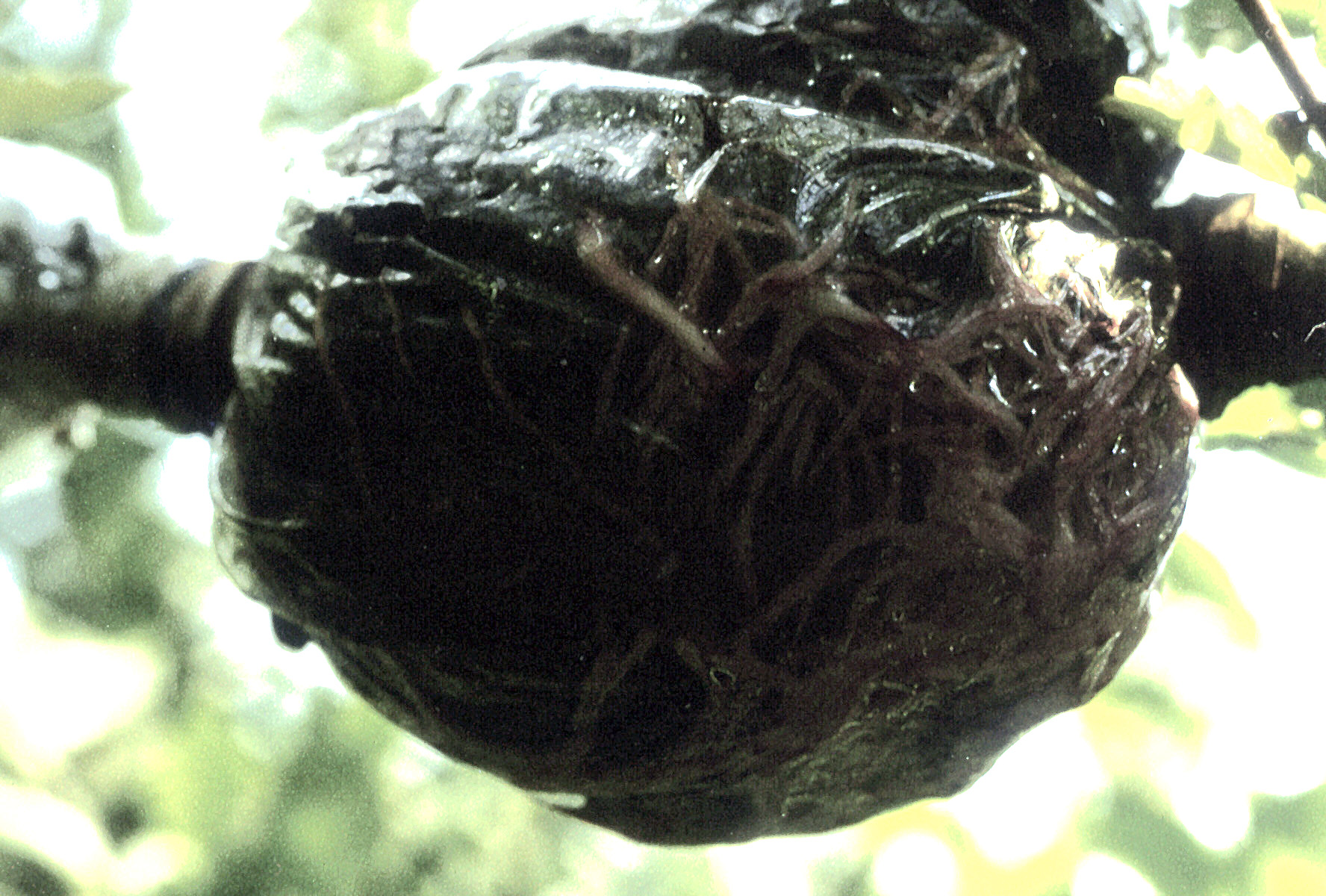 New roots have penetrated the moss ball (Air layering of Ulmus_pumila)